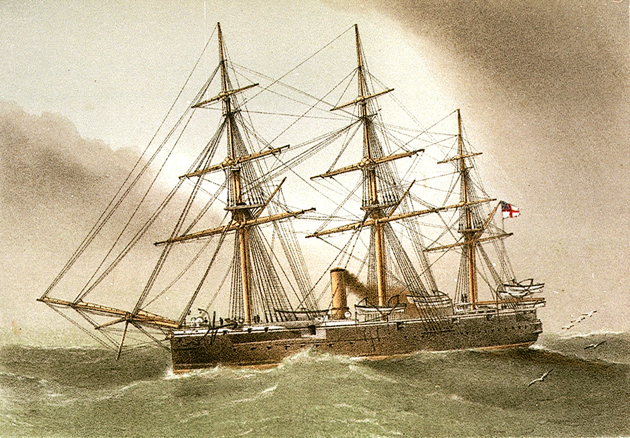 H.M.S. Shannon Print